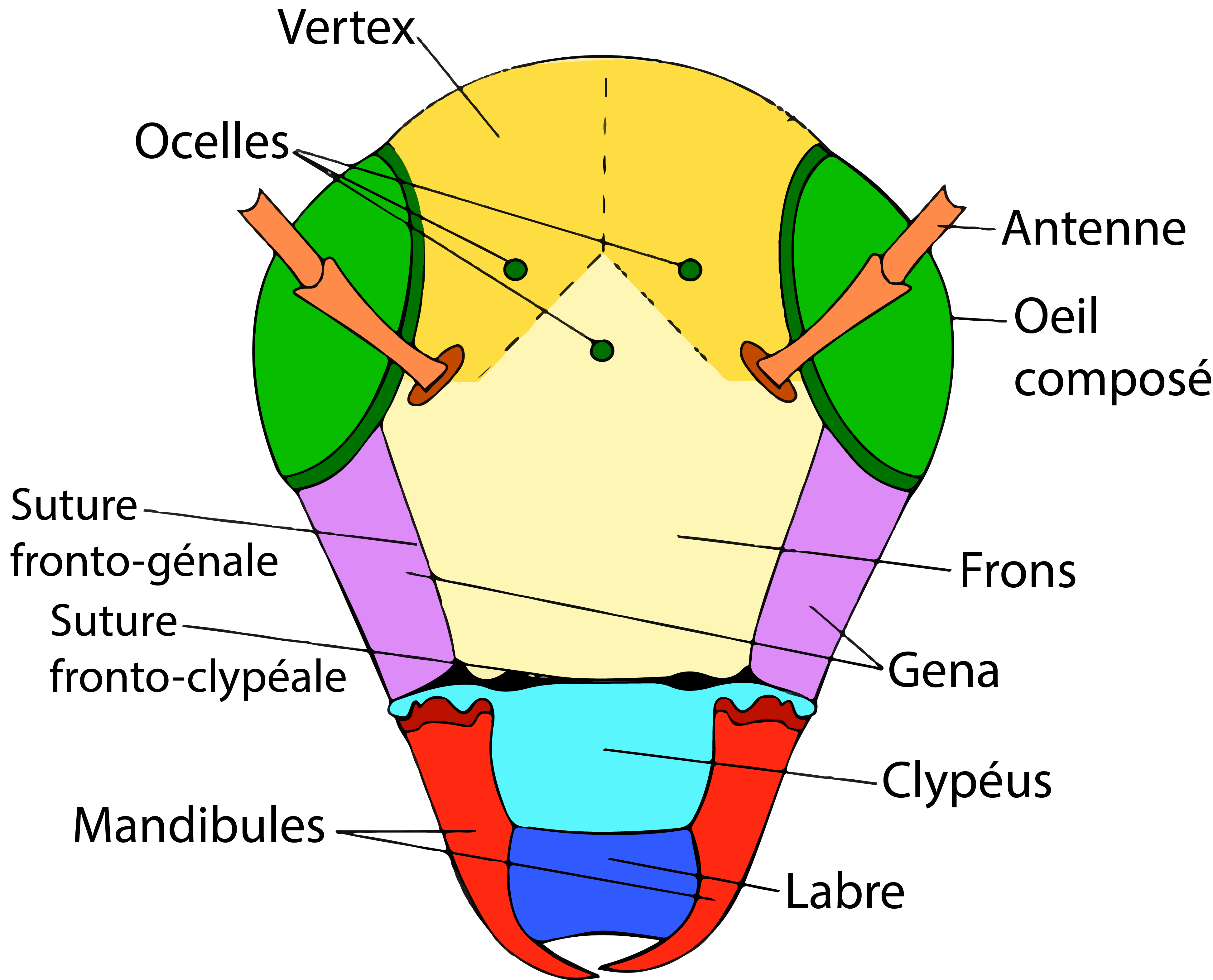 French version